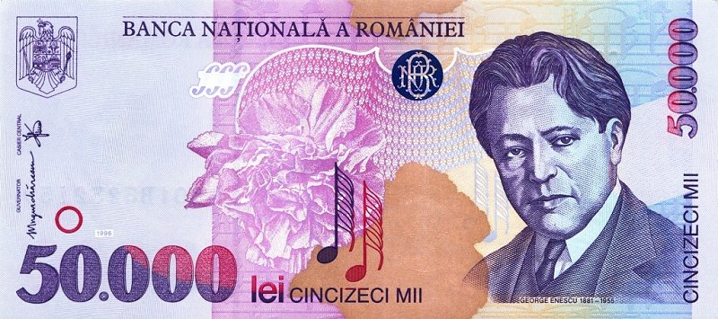 50 000 Romanian leu from 1996 - obverse